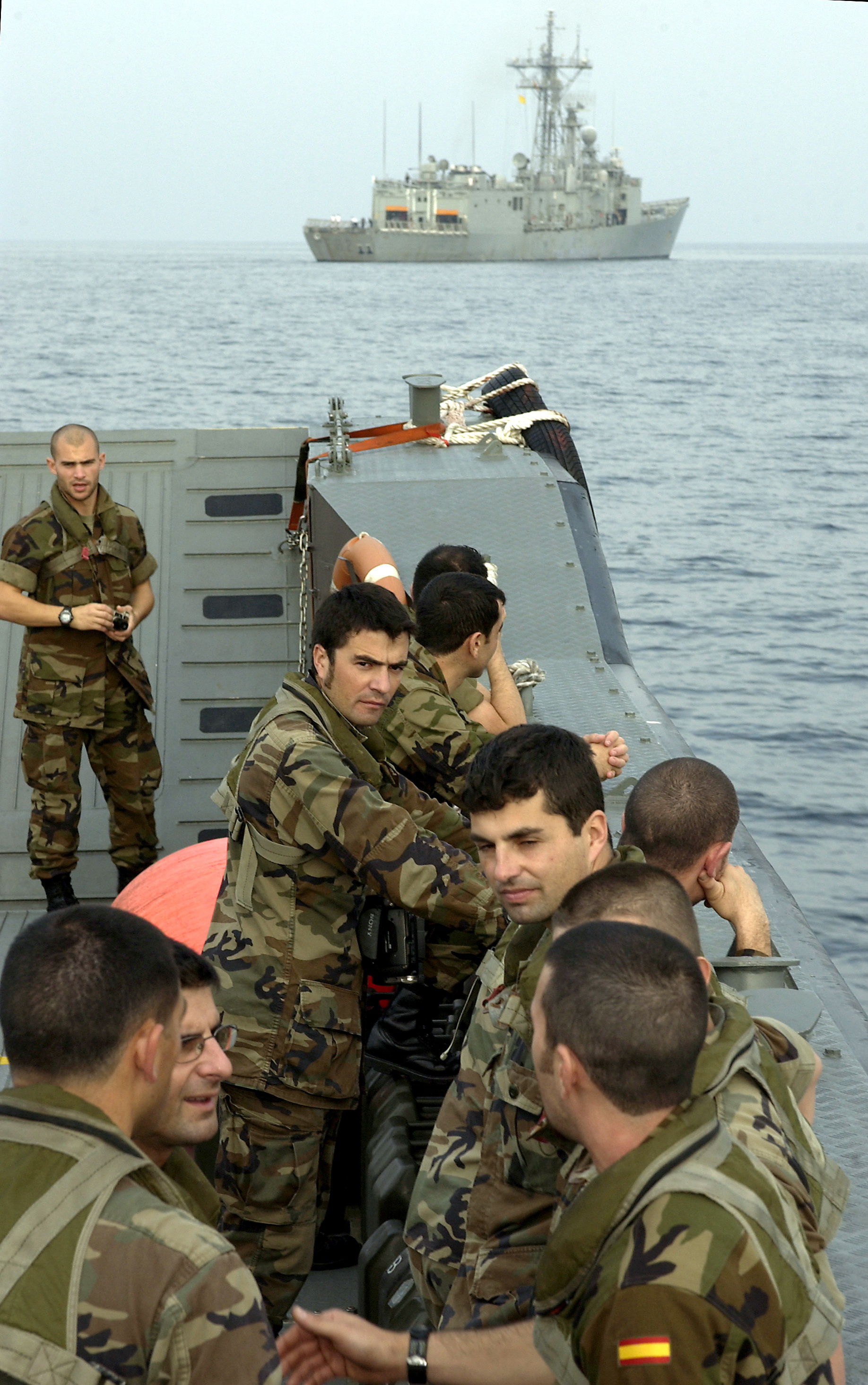 Arabian Gulf (Jan. 12, 2004) -- Members of the Spanish 19th Special Forces team approach the Spanish Navy Santa Maria-class frigate Victoria (F 82), in a Landing Craft Utility (LCU). Spanish Navy units are part of a 15-nation US-led coalition force participating in the multi-nation exercise Sea Saber 2004. Sea Saber will provide a multi-tiered training scenario in locating weapons of mass destruction aboard suspect ships operating in waters currently patrolled by coalition forces in support of Operations Enduring Freedom and Iraqi Freedom. U.S. Navy photo by Journalist 1st Class Jeremy L. Wood. (RELEASED)